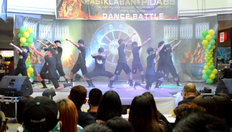 MOS Wanted Krew, the official Dance Group of Calumpang National High School bags 2nd Runner Up in 2014 Pasiklaban sa Pidabs in Sta. Cruz, Laguna